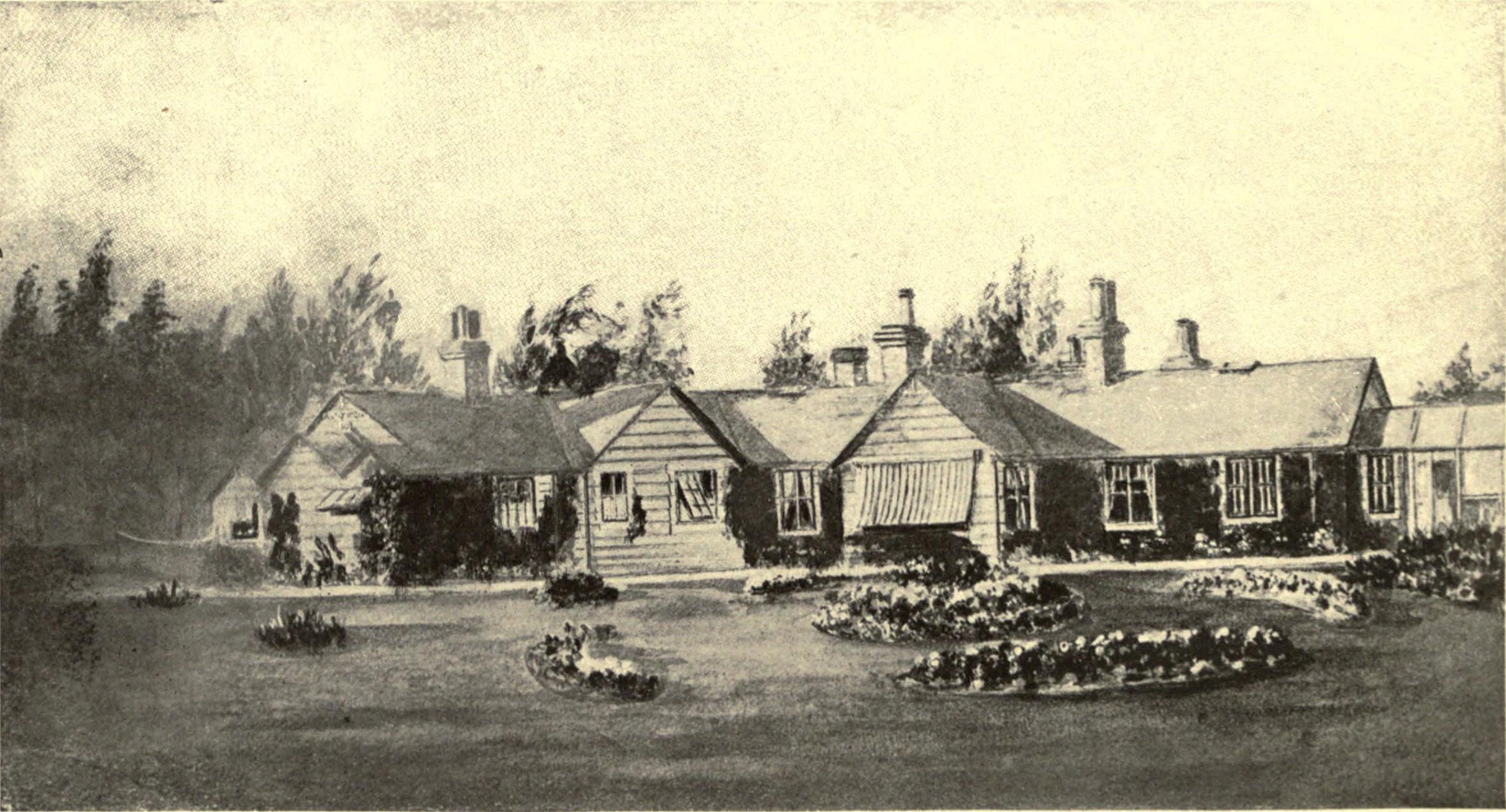 Colonel Wood's quarters in Aldershot, 1876–77.